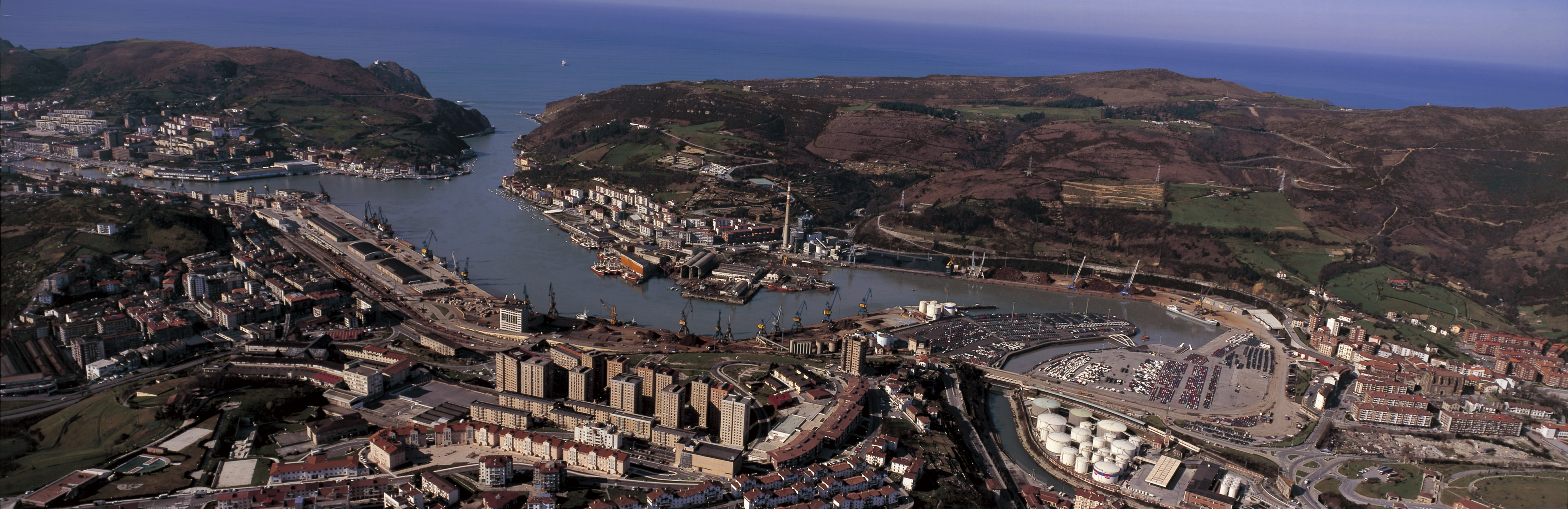 Port of Pasaia-Pasajes. Gipuzkoa, Basque Country.